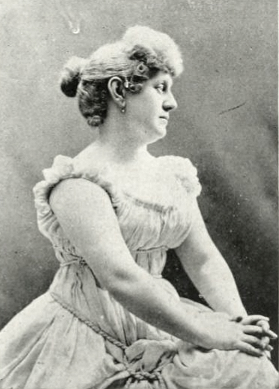 Photo of artist and organizer Lily Irene Jackson, ca. 1893.